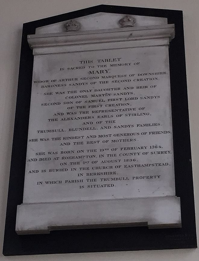 Saint Andrew's church, Ombersley, Worcestershire: Sandys Hill memorial on the north wall of the chancel